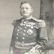 Portrait of Admiral Sir Robert Henry More-Molyneux